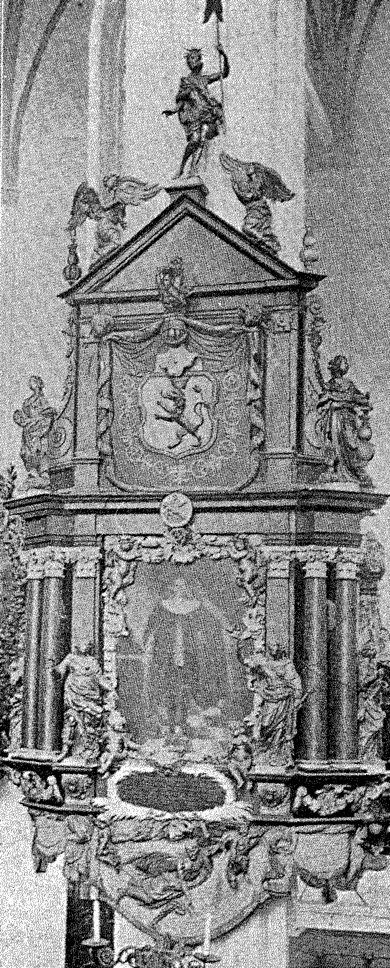 Epitaph for Mayor Heinrich Kerkring (1695) with portrait by Gottfried Kniller/Godfrey Kneller from 1676, destroyed 1942